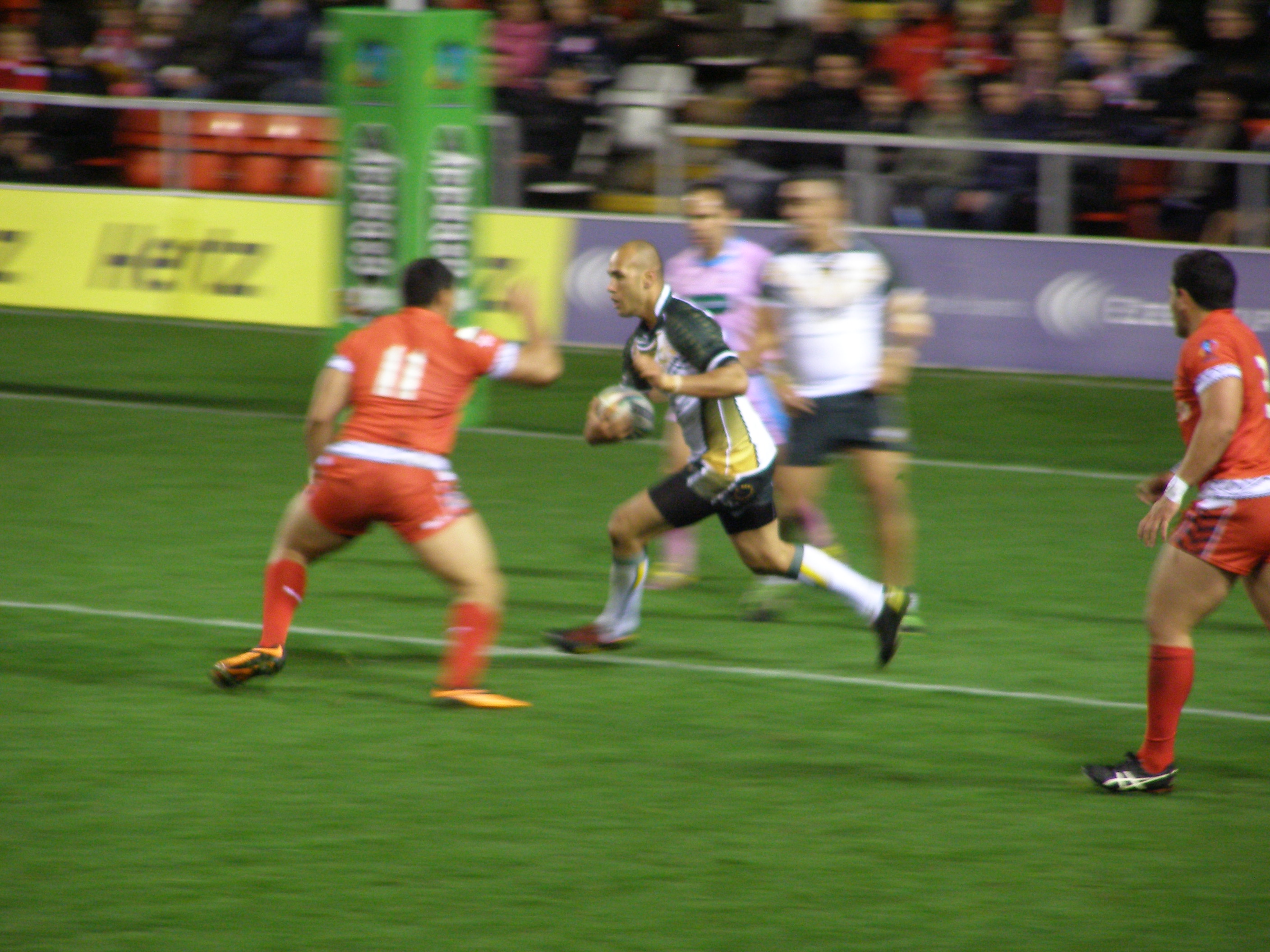 2013 Rugby League World Cup match between Tonga and Cook Island at Leigh Sports Village in Leigh.